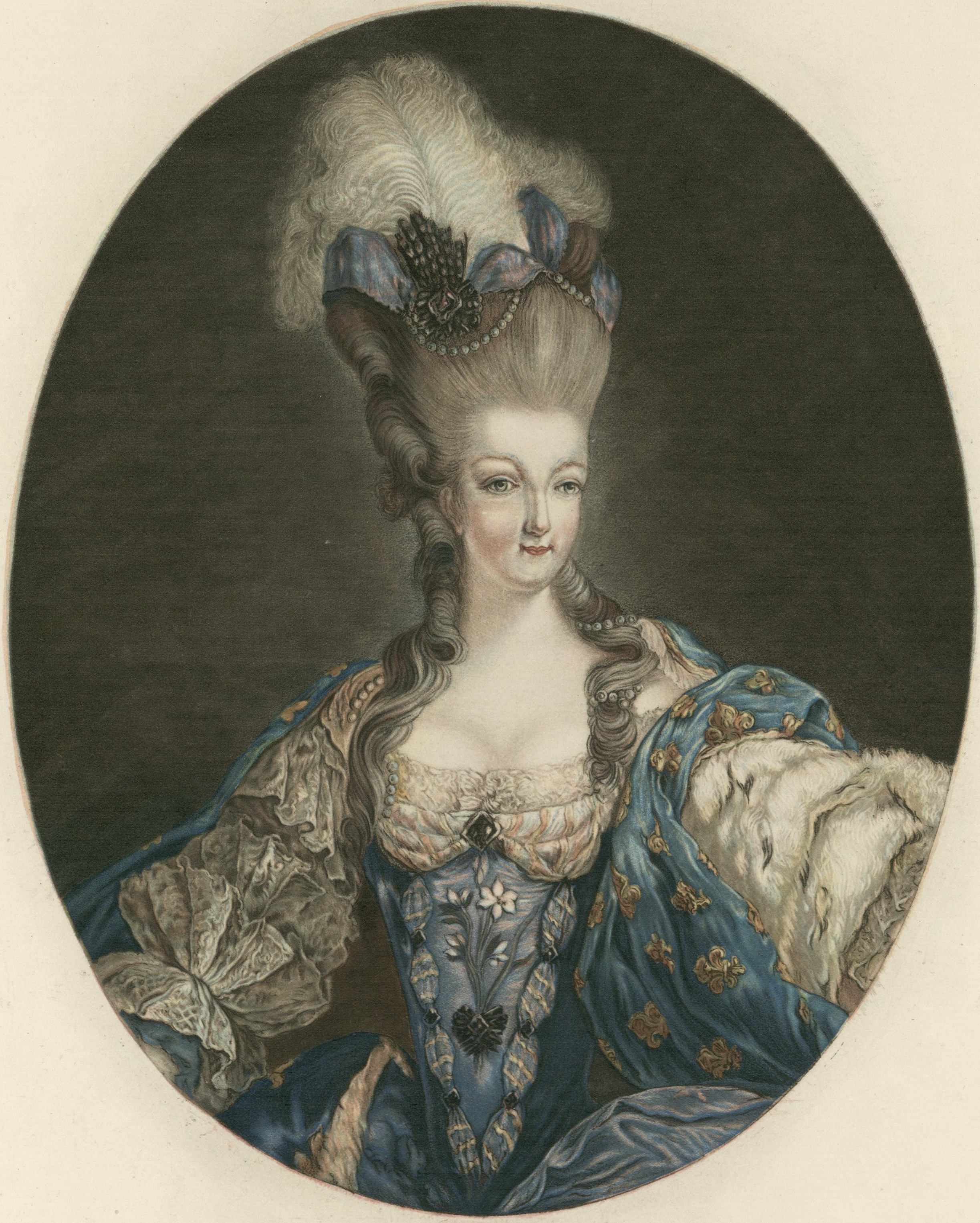 Portrait of Marie Antoinette